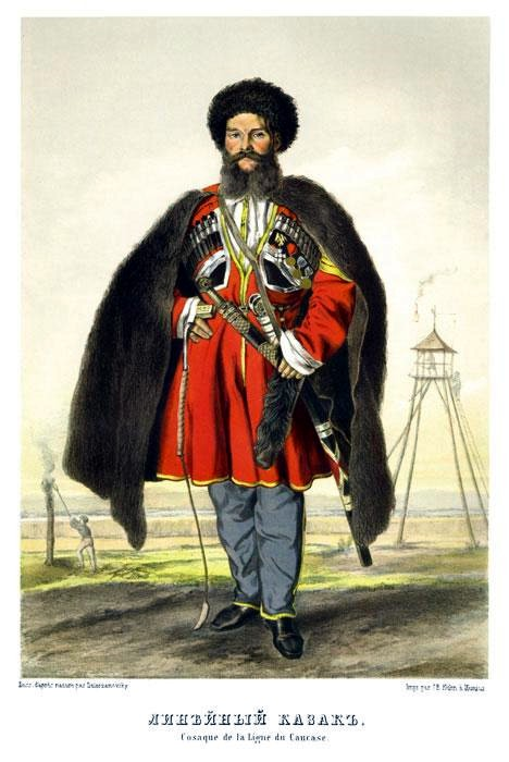 Lineen Kosak